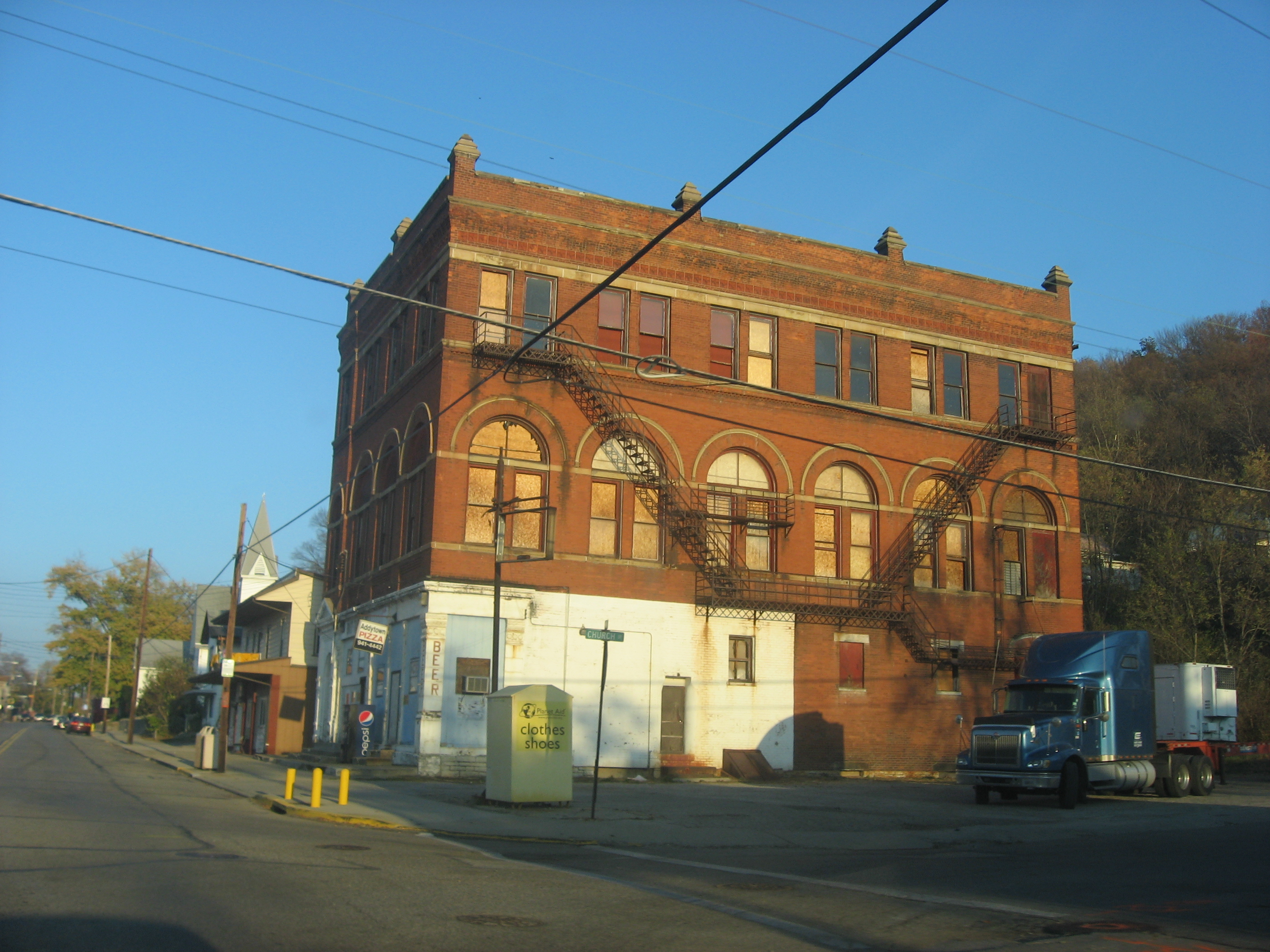 Eastern side of the building on the northwestern corner of the intersection of Main and Church Streets in downtown Addyston, Ohio, United States. This building and those around it are part of a historic district, the Village of Addyston Historic District, that is listed on the National Register of Historic Places.